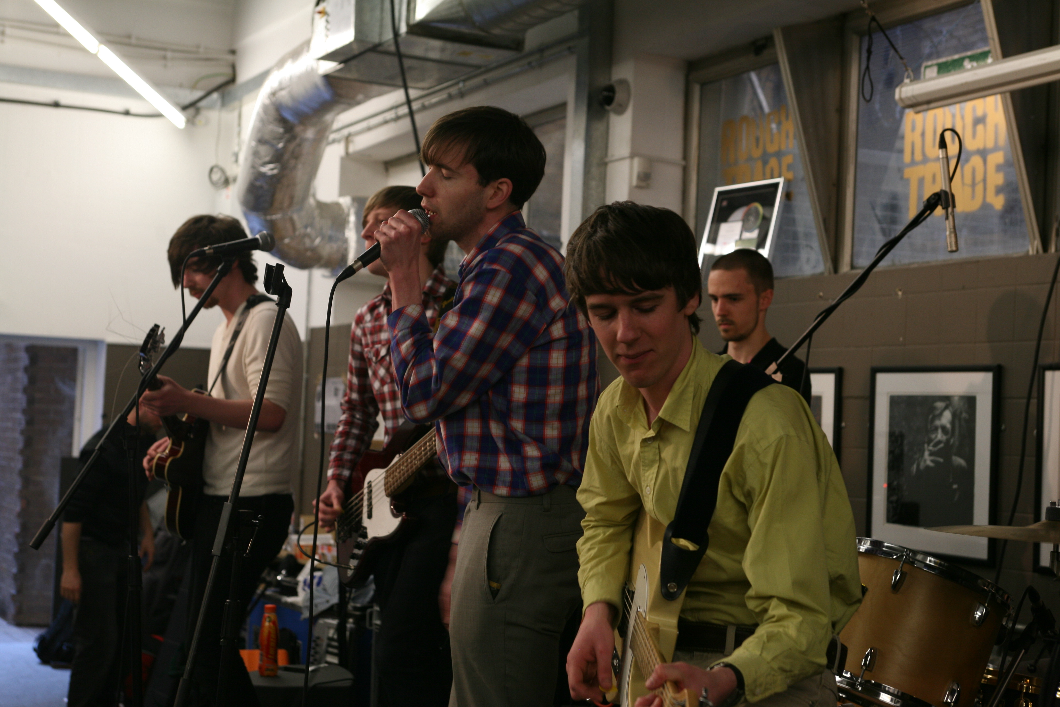 British band Dutch Uncles live at 2009 Record Store Day